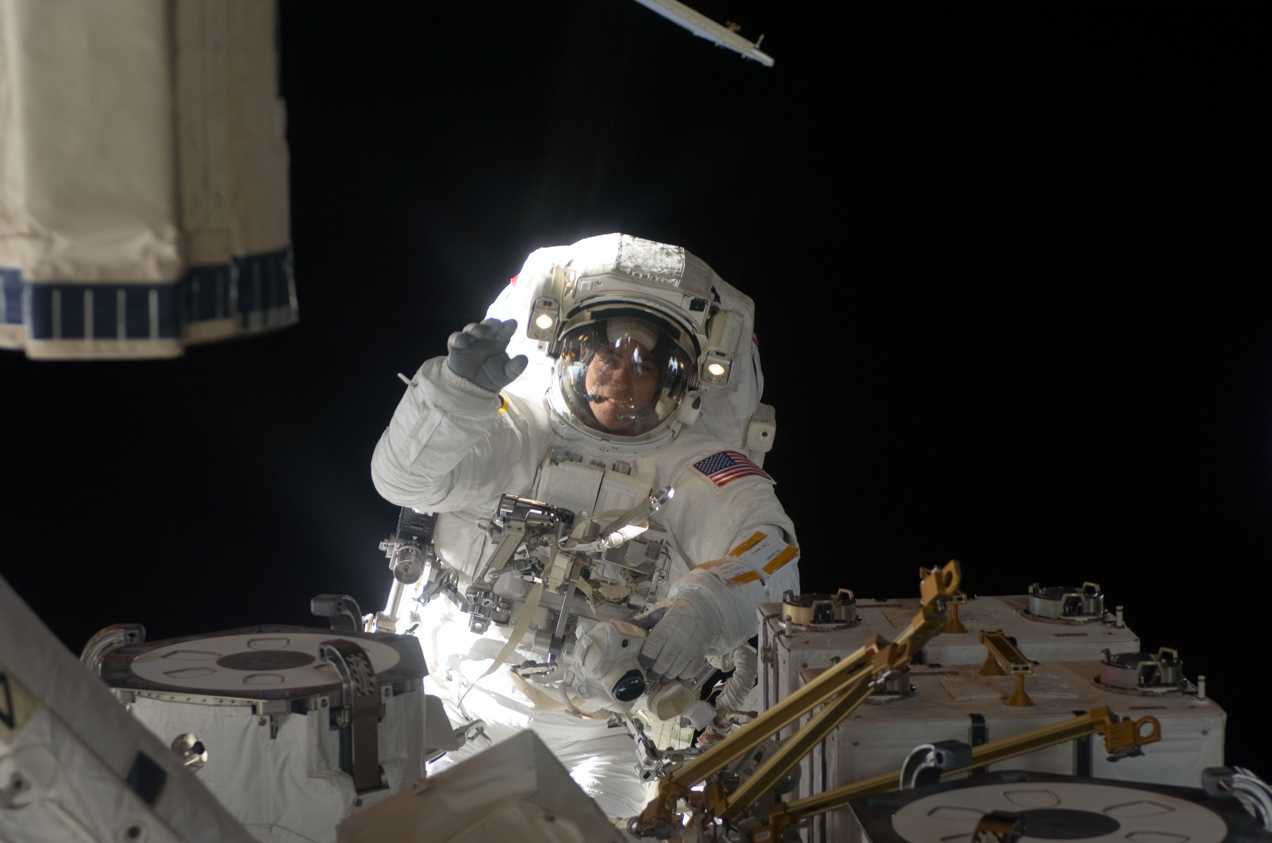 Astronaut Christopher Cassidy, STS-127 mission specialist, participates in the mission's fifth and final session of extravehicular activity (EVA) as construction and maintenance continue on the International Space Station. During the four-hour, 54-minute spacewalk, Cassidy and astronaut Tom Marshburn (out of frame), mission specialist, secured multi-layer insulation around the Special Purpose Dexterous Manipulator known as Dextre, split out power channels for two space station Control Moment Gyroscopes, installed video cameras on the front and back of the new Japanese Exposed Facility and performed a number of "get ahead" tasks, including tying down some cables and installing handrails and a portable foot restraint to aid future spacewalkers.